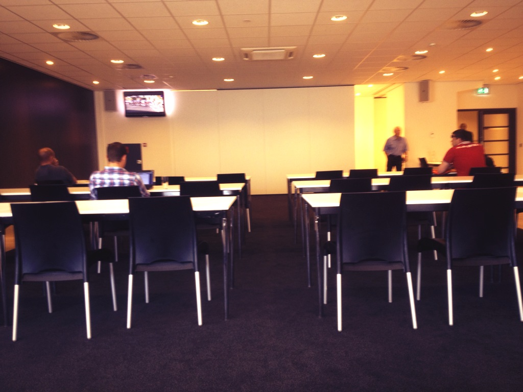 Press room at the Philips Stadion. This is where the press conferences are held.